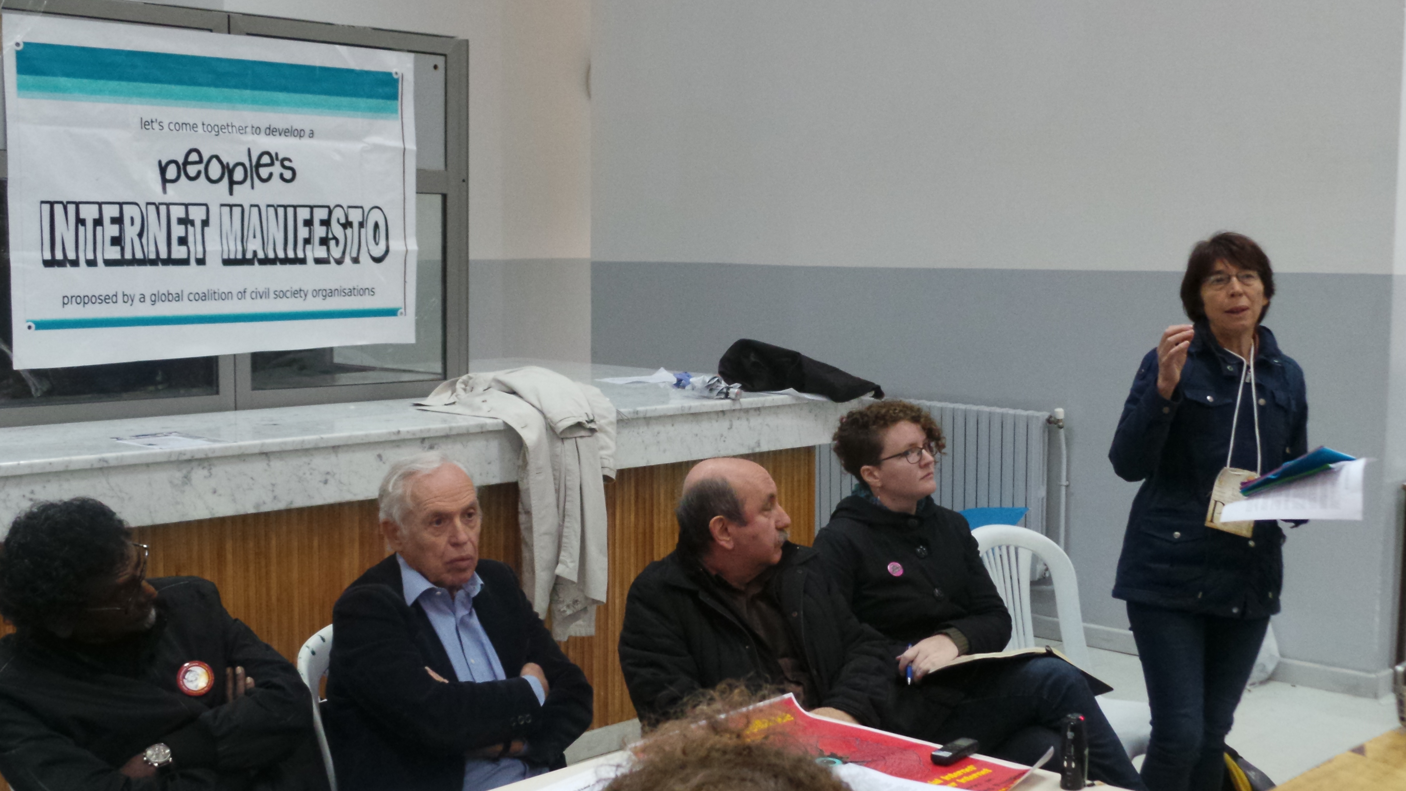 Preparatory meeting for the Internet Social Forum during the meeting of the World Social Forum 2015 Tunisia Statement by Sally Burch, ALAI.